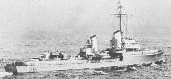 German Type-1934-Destroyer Z 1 Leberecht Maass, booklet for identification of ships, published by the Division of Naval Inteligence of the Navy Department of the United States.